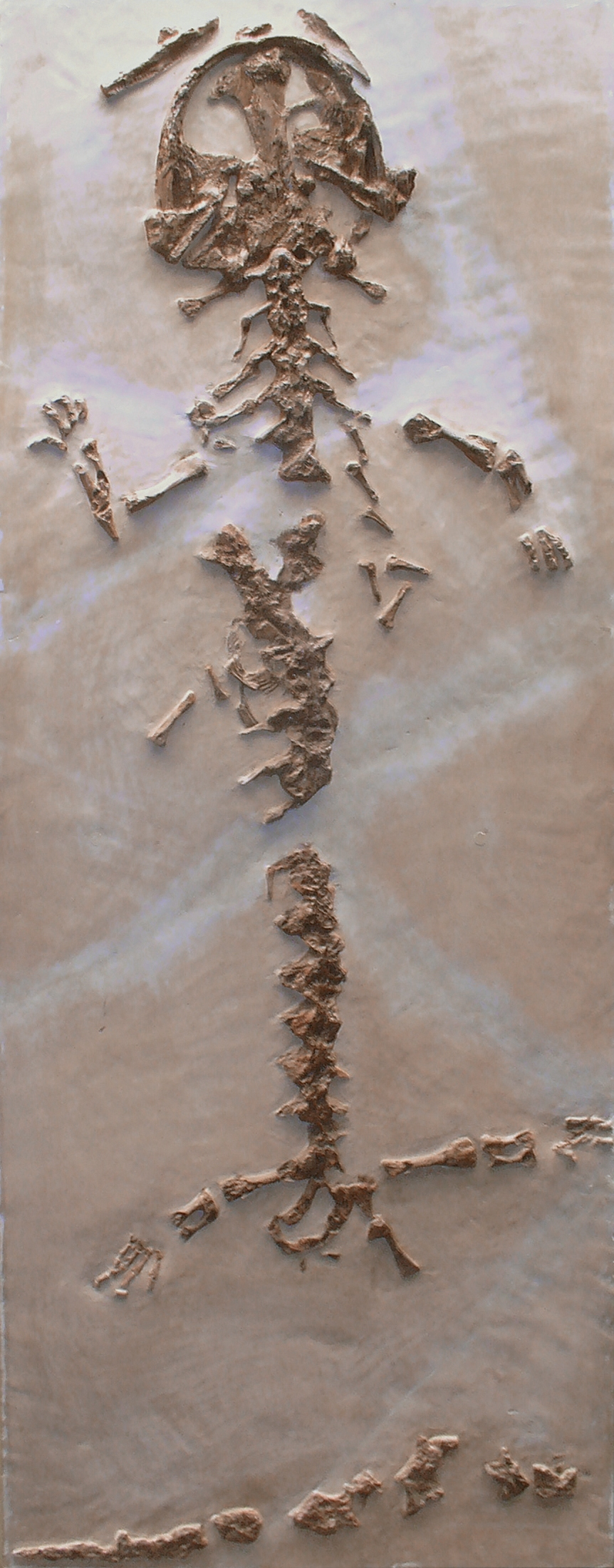 Andrias scheuchzeri („Homo diluvii testis“), Cryptobranchidae, Scheuchzer’s Giant Salamander; Miocene, Öhningen layers, Öhningen, Germany; Staatliches Museum für Naturkunde Karlsruhe, Germany.